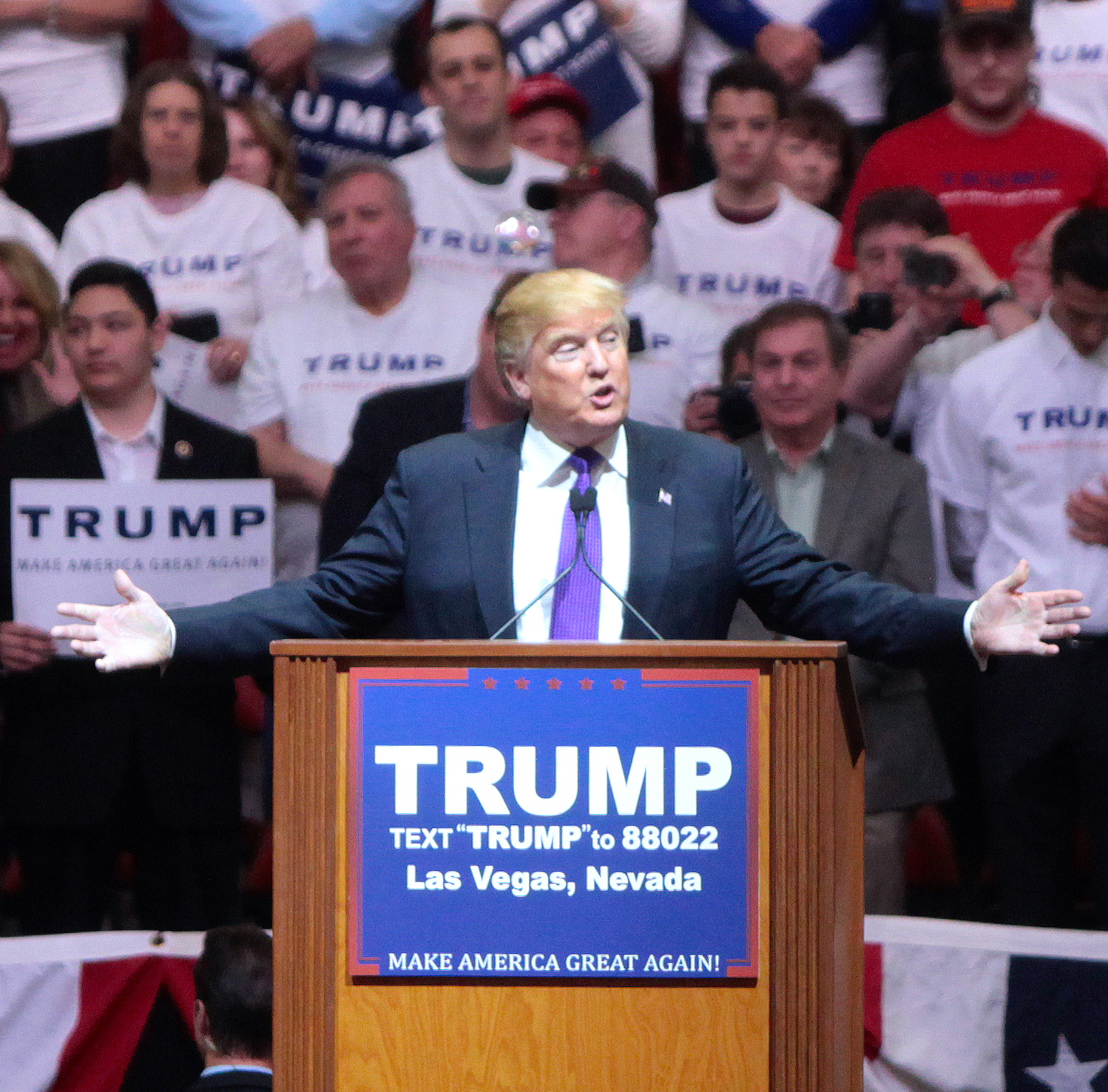 Donald Trump speaking with supporters at a campaign rally at the South Point Arena in Las Vegas, Nevada in 2016. Taken by Gage Skidmore.